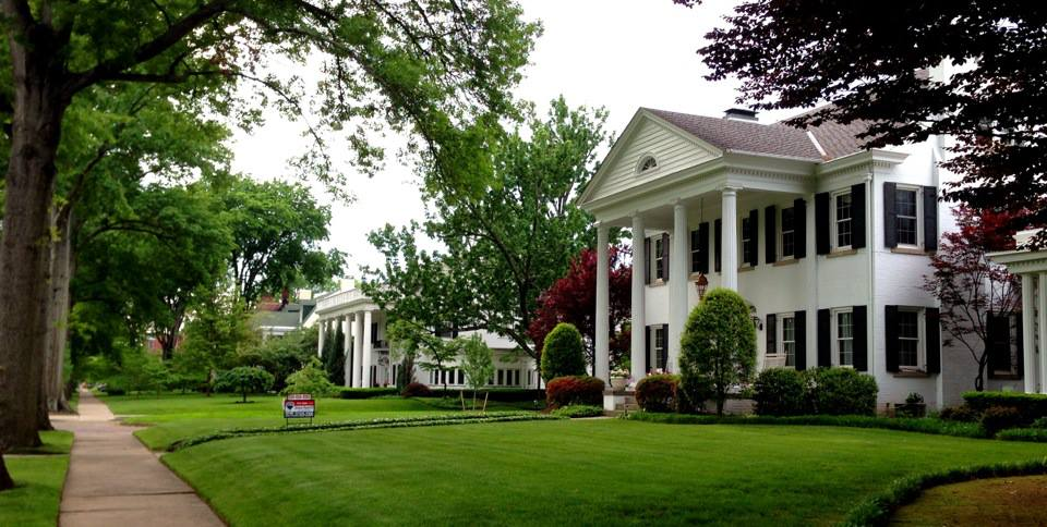 Houses adjacent to Ritter Park in the Ritter Park Historic District. Taken May 17, 2013.